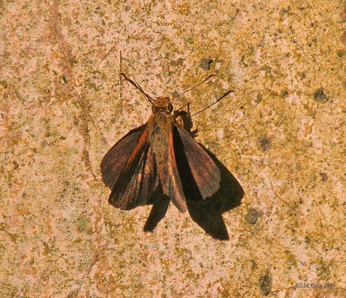 Indian Darlet Oriens goloides at Narendrapur near Kolkata, West Bengal, India.